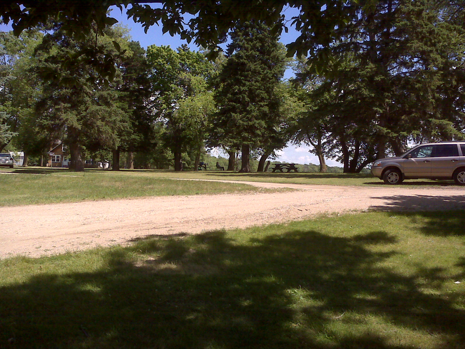 This is a scene of one of Glendalough State Park's picnic and beach areas. This one is on the shore of Annie Battle Lake and is the hub for several hiking trails. Glendalough State Park is close to the town of Battle Lake, Otter Tail County in western/northwestern Minnesota.